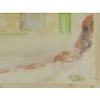 Winston churchil water color landscape painting